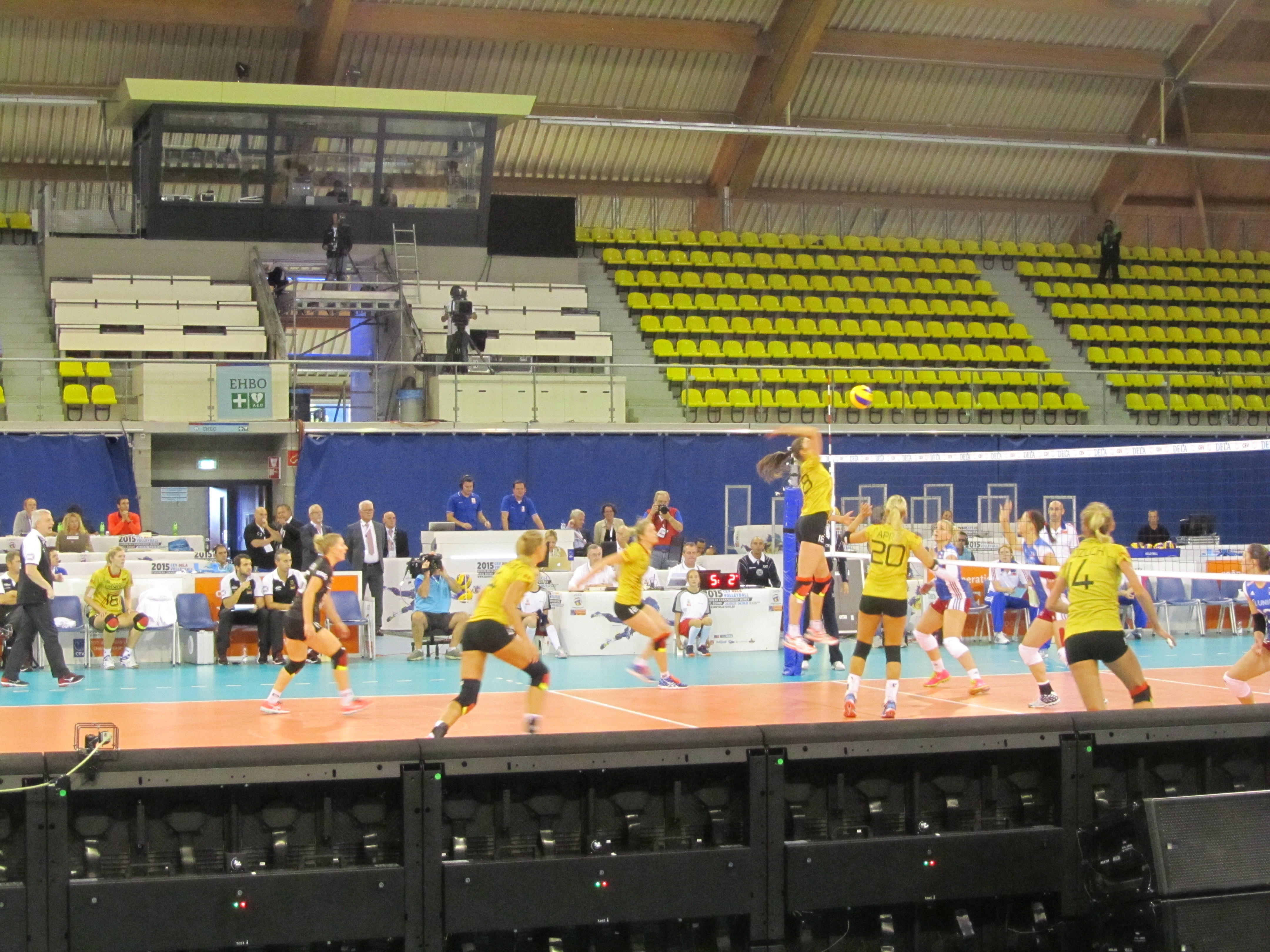 Scene of the match Germany vs Czech Republic in pool D of the Women's European Volleyball Championship in the Indoor Sportcentrum in Eindhoven (Netherlands)